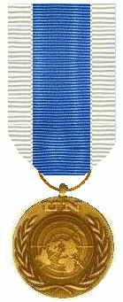 UN Special Sevice Medal